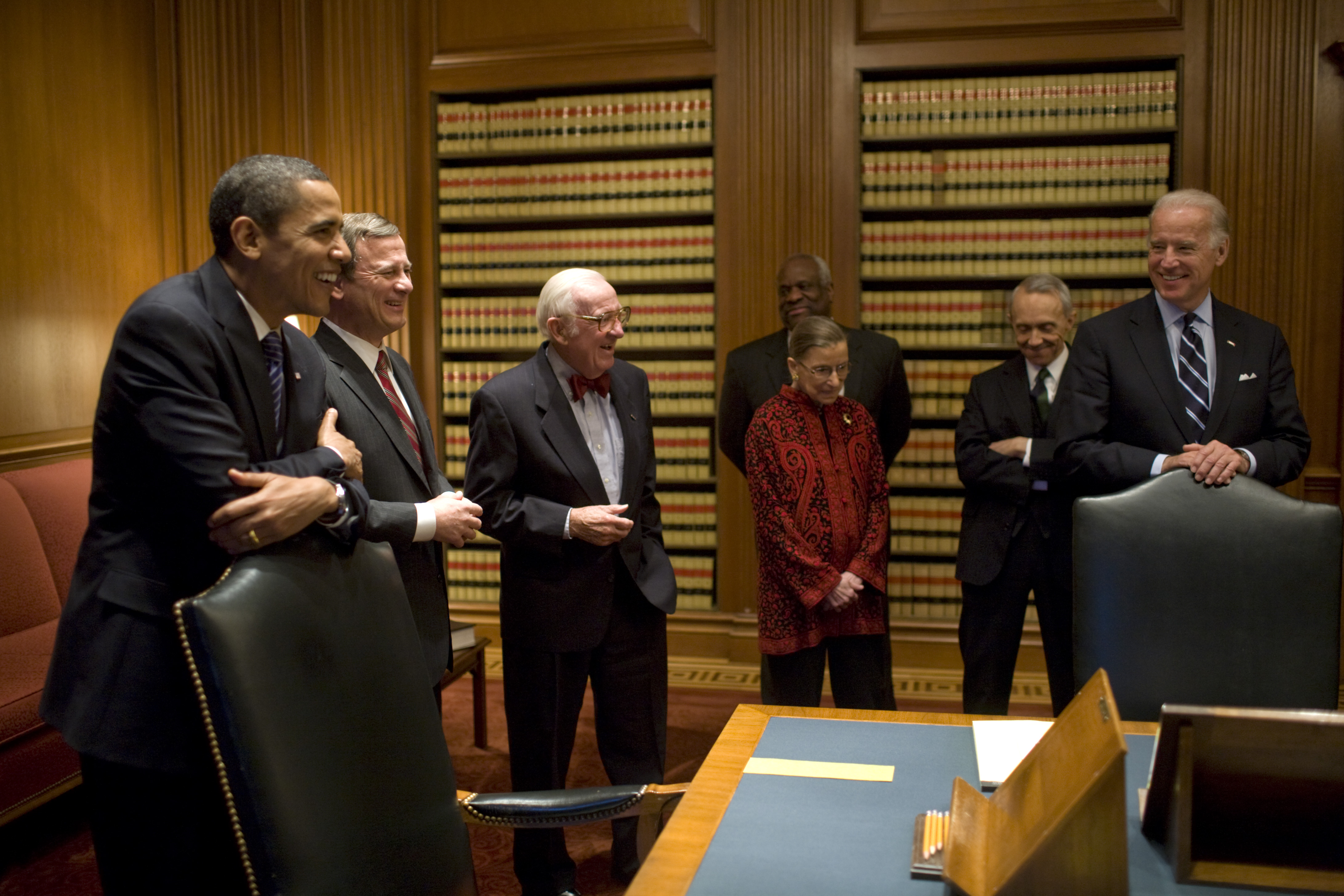 Then President-elect Barack Obama and Vice President-elect Joe Biden with Justices during a visit to the U.S. Supreme Court in Washington, D.C. on Weds. Jan. 14, 2009. From left, Obama, Chief Justice John Roberts Jr., John Paul Stevens, Ruth Bader Ginsburg, Clarence Thomas, David Souter and Biden. (Photo by Pete Souza/Obama Transition Team)